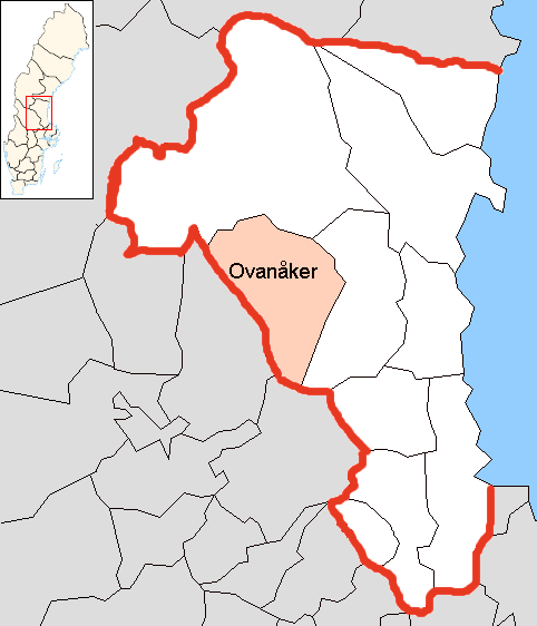 Ovanåker Municipality in Gävleborg County Designd by me, based on Image:Gävleborg County.png